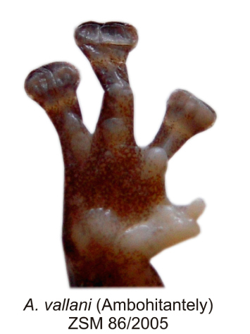 Views of palmar surfaces of male of Anodonthyla vallani frog, showing relative size and degree of separation of first finger and prepollex.